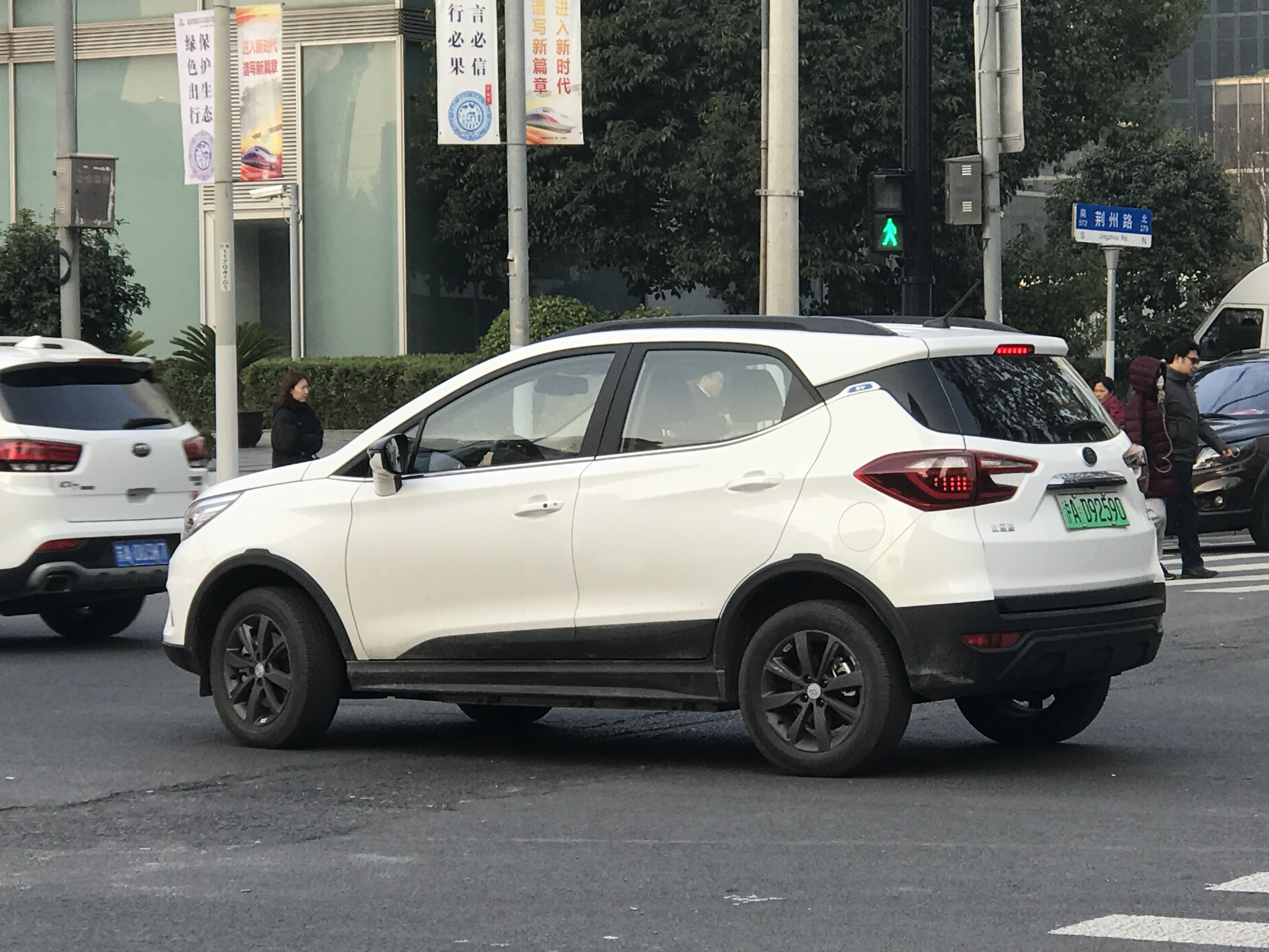 BUD Yuan facelift rear quarter view without the rear spare tire.